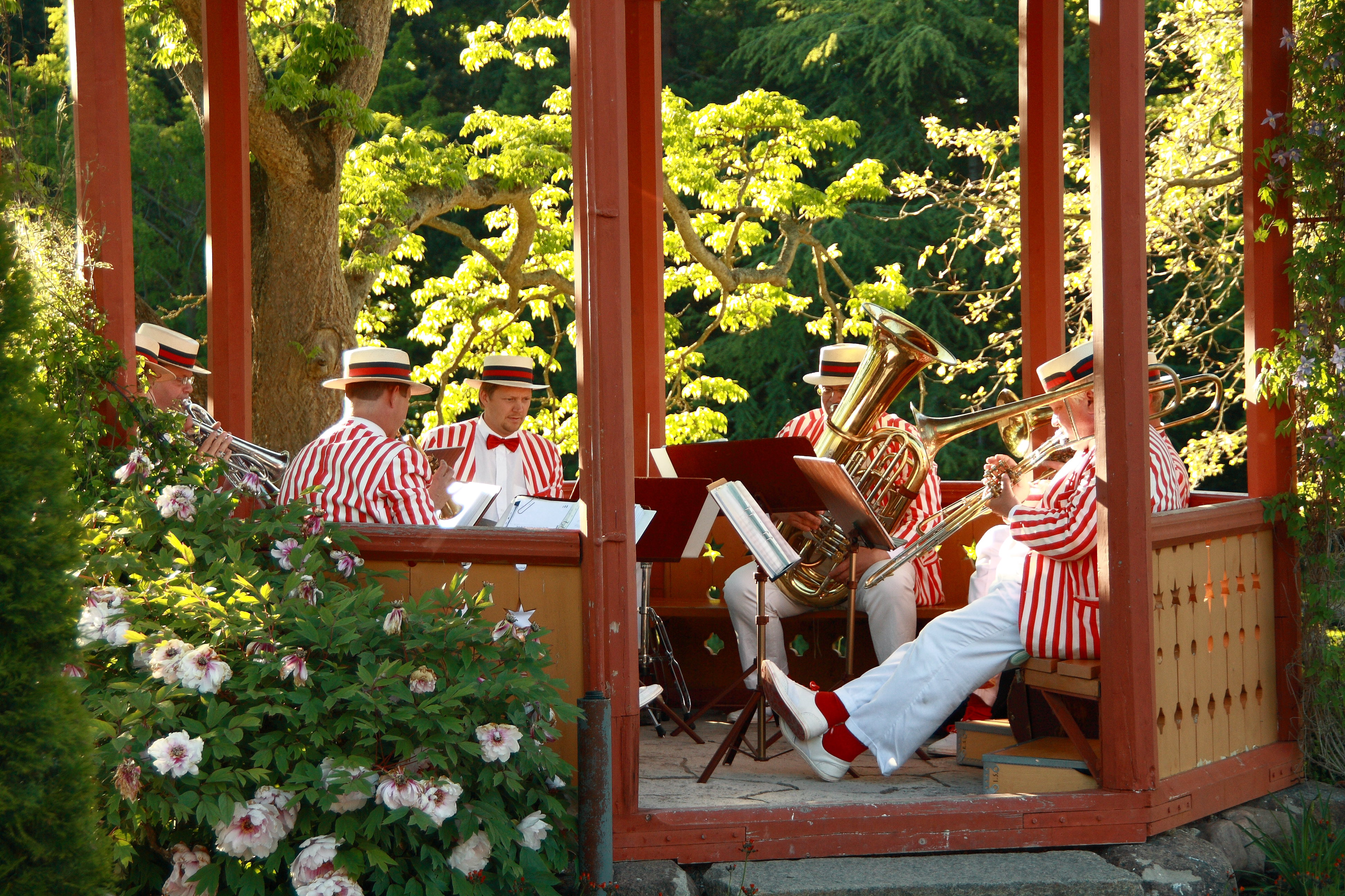 Concert on a summer evening in the pavilion of the botanical garden of Visby, Gotland.